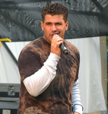 Joshua Gracin performing at the U.S. Army's 231st birthday.